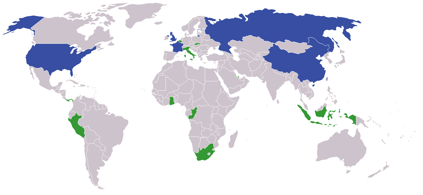 The United Nations Security Council as of 2007, showing permanent members in blue and current elected members in green.